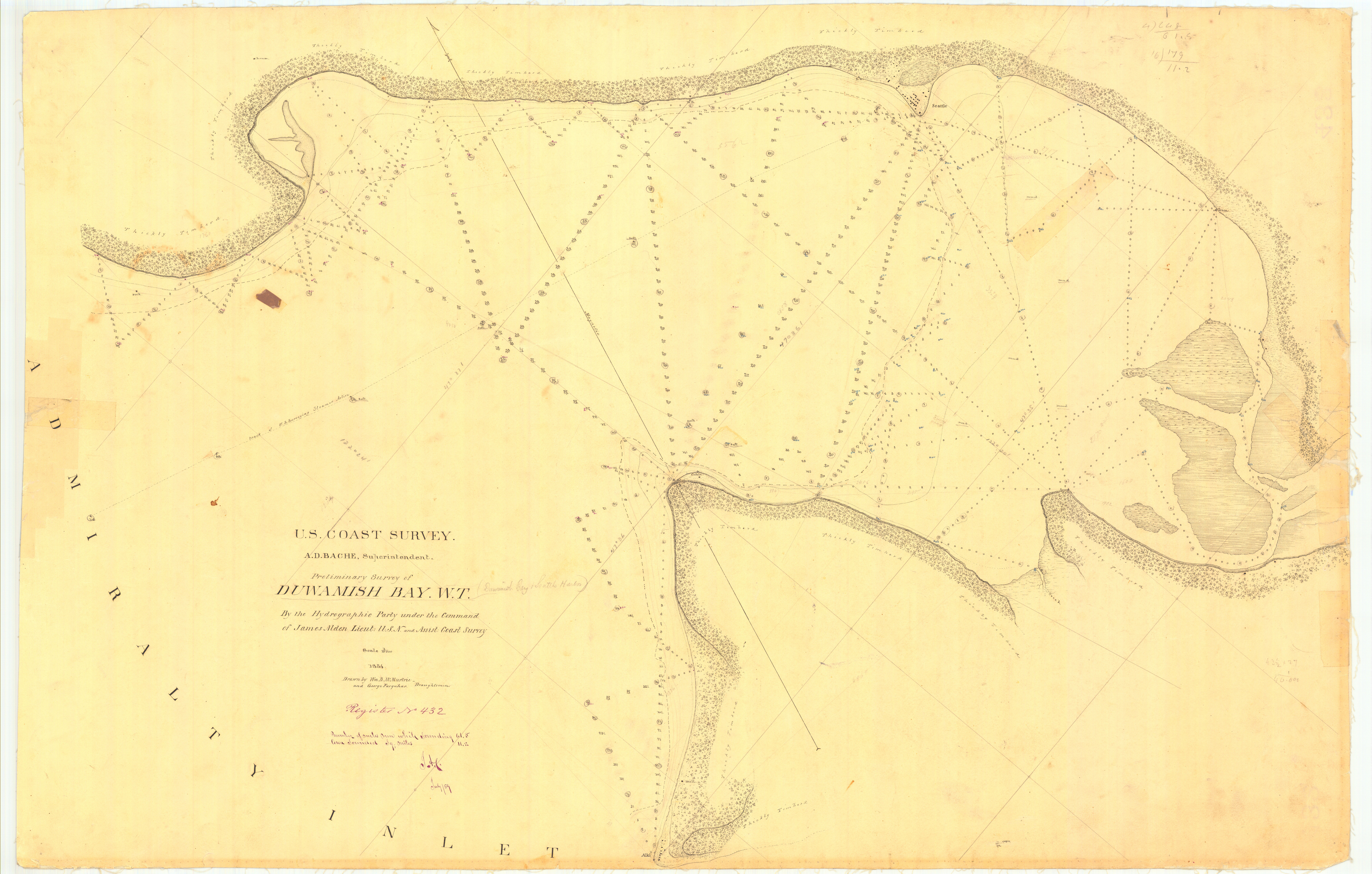 The survey that produced this chart was conducted by the USCS Active in 1854. Duwamish Bay would later be known as Elliott Bay, and what is referred to as Admiralty Inlet here is now considered part of Puget Sound.